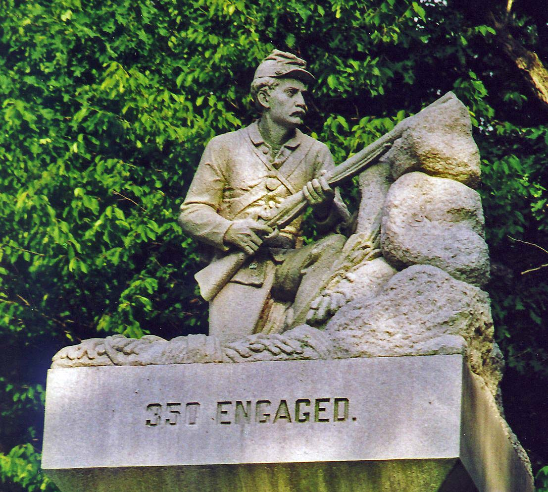 Monument to the 17th Maine Infantry at Gettysburg battlefield 1888